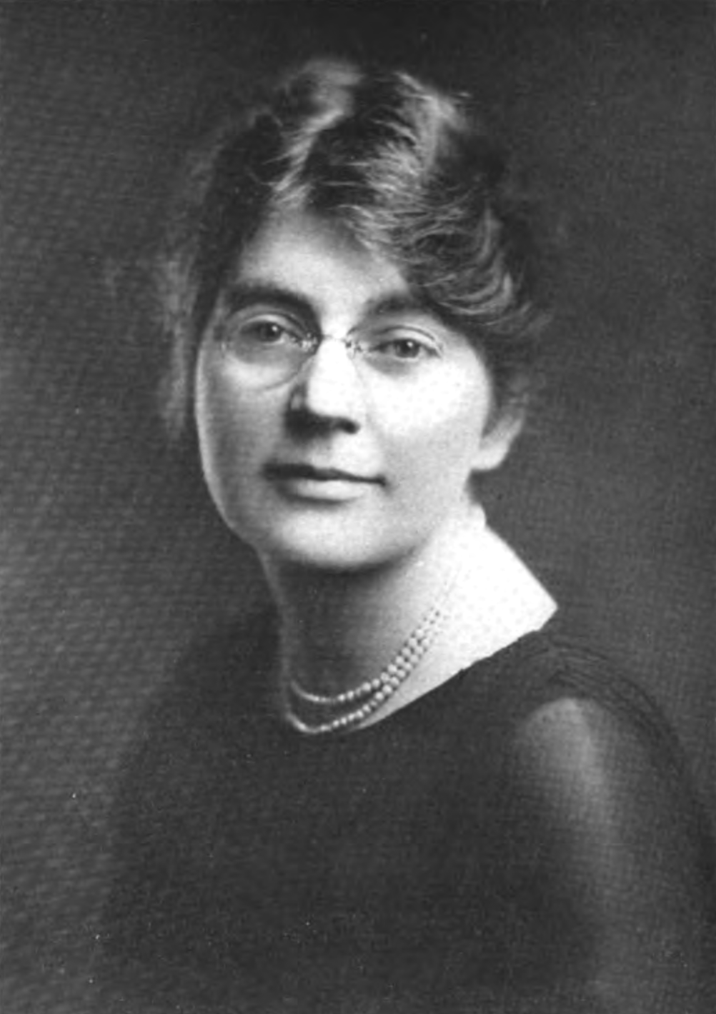 Photograph Ruth Blair wearing glasses and a string of pearls